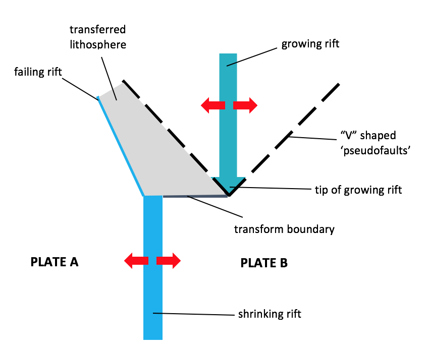 A graphical visual geometry of a propagating rift.